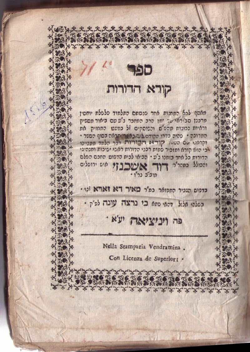 Kore Hadorot, Venice 1746, st ed.